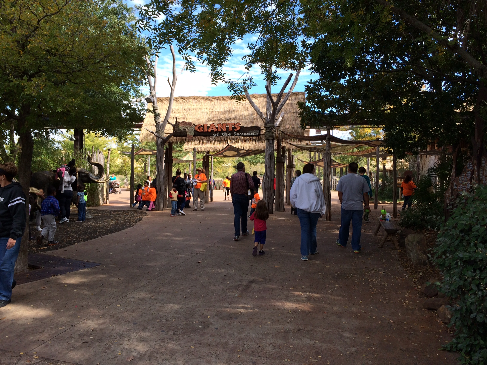 Giants of the Savanna Entrance